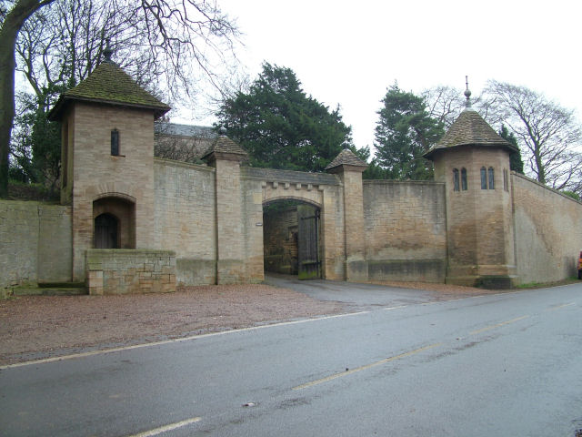 Entrance to Hooton Pagnell Hall. Main house, unfortified Tudor, presumably on the site of an earlier possibly fortified house.